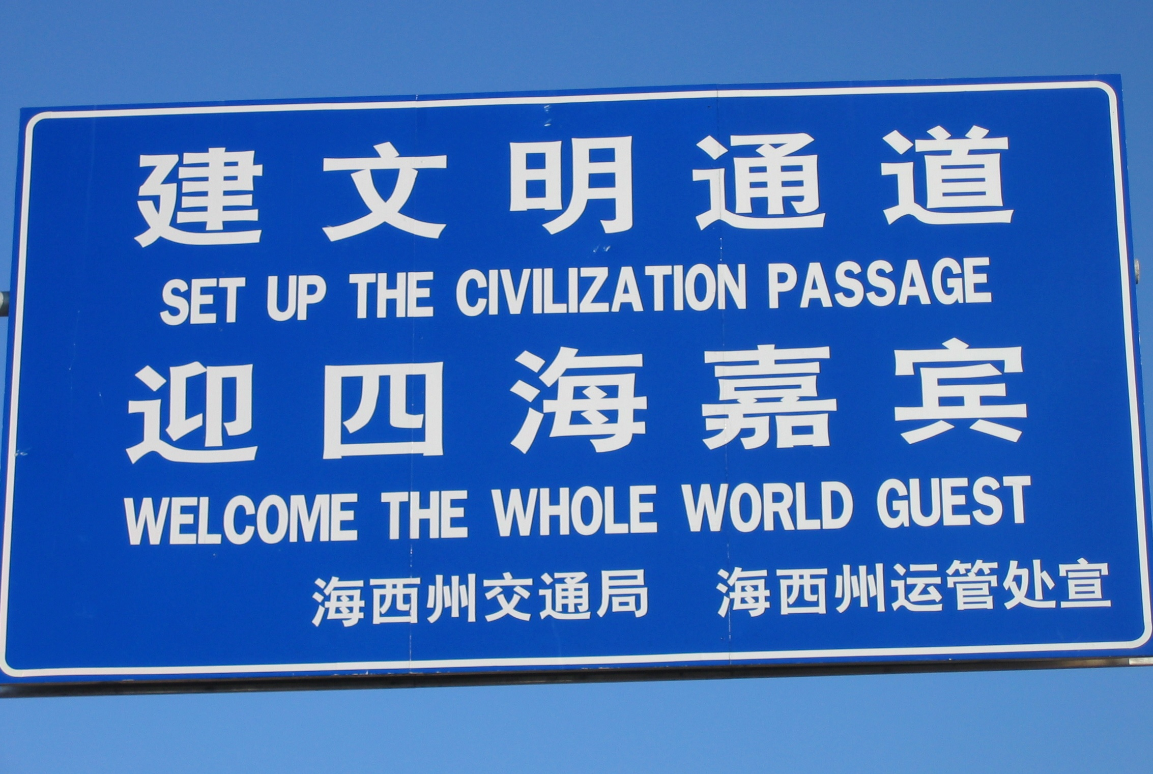 Chinglish seen on a road sign in Haixi Mongol and Tibetan Autonomous Prefecture. 中文（中国大陆）: 青海省海西蒙古族藏族自治州，一处写有中式英语的路牌。